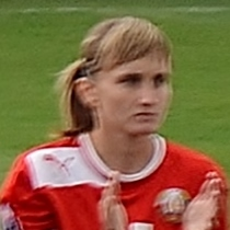 Belarus women's national association football team in the away match of 2015 FIFA Women's World Cup qualification – UEFA Group 6 against Turkey on September 17, 2014